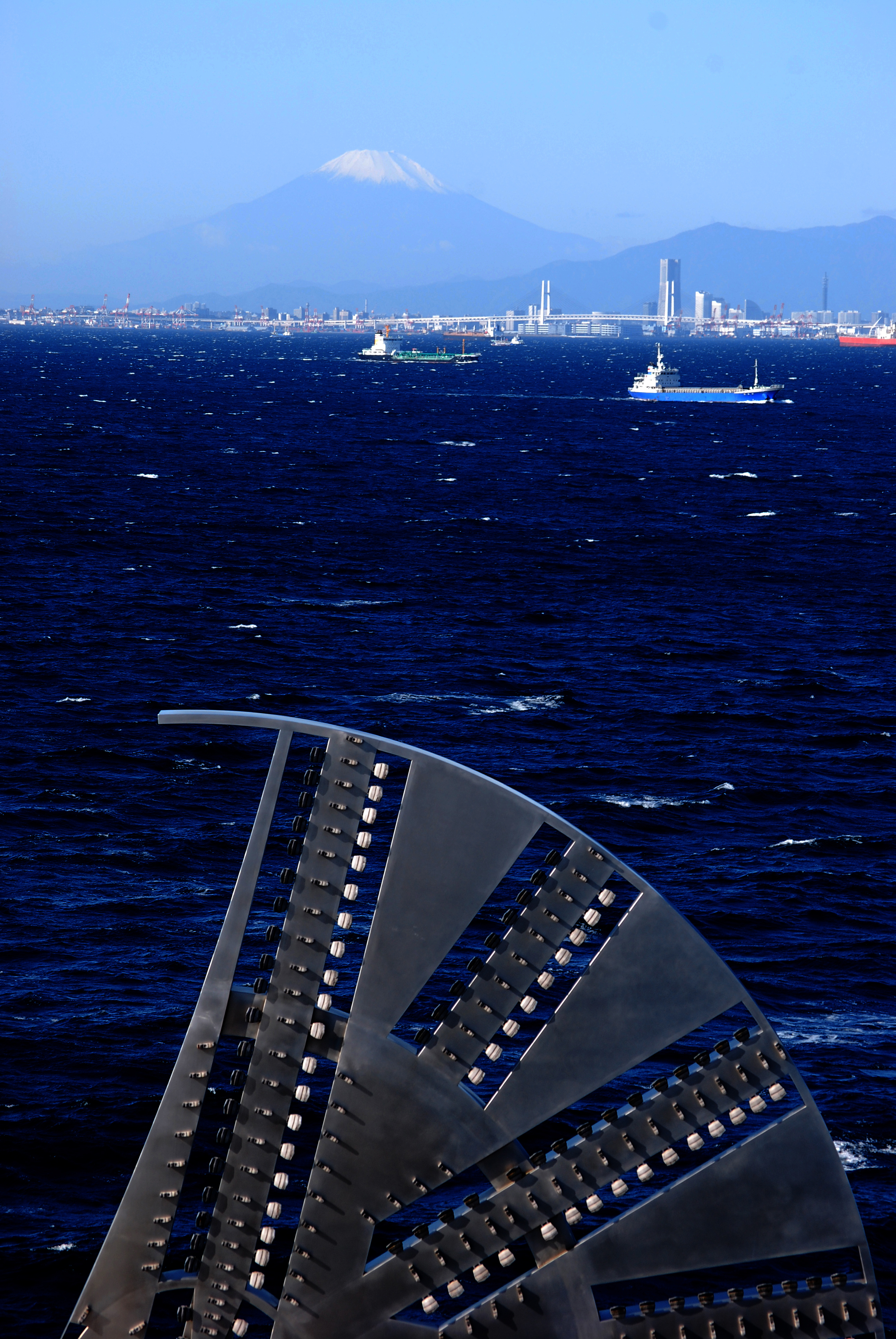 Fuji San From Tokyo Aqua Line. Japan